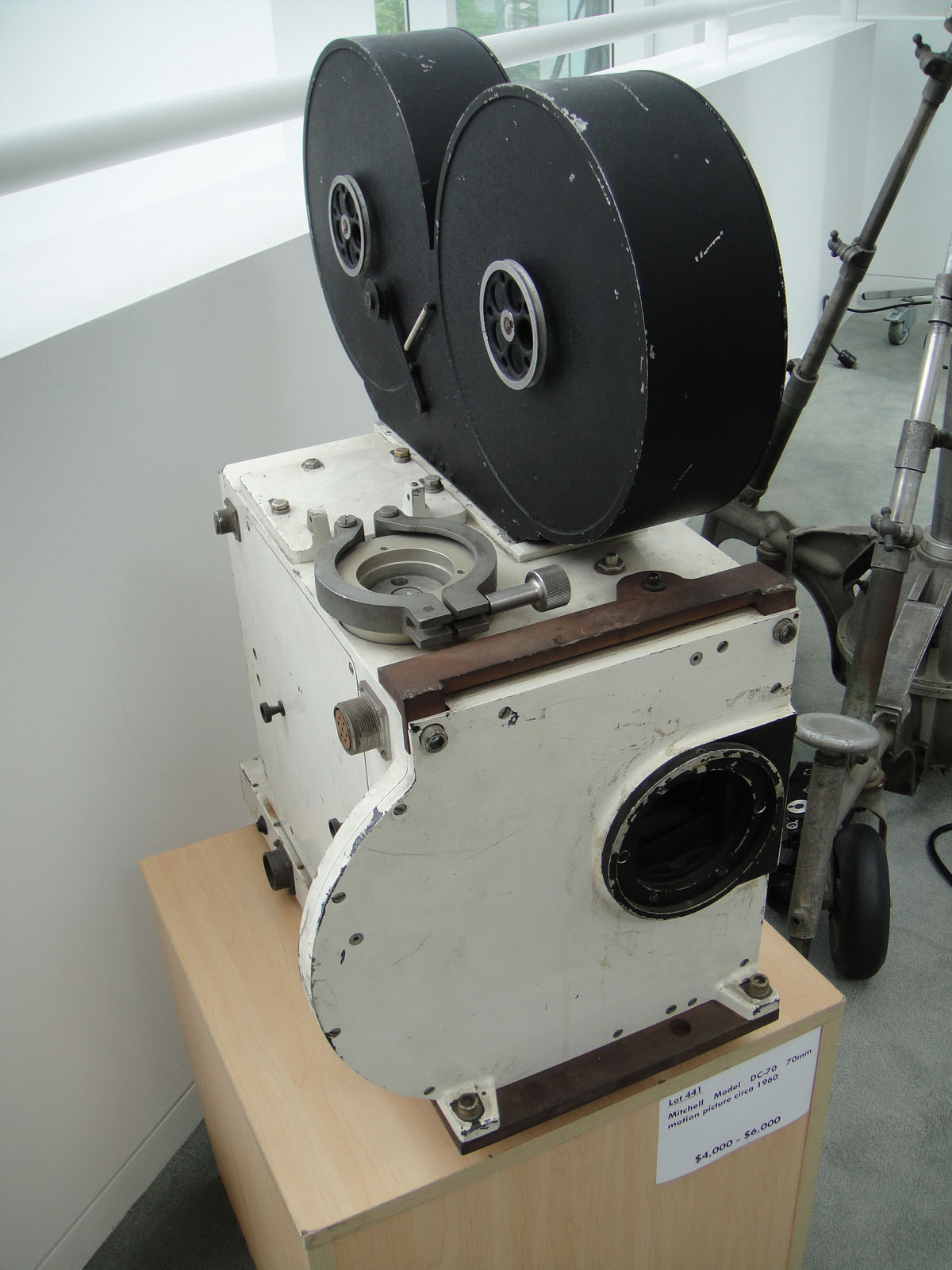 Mitchell Model DC-70 70mm motion picture camera circa 1960 at the Debbie Reynolds Auction Breaks Up Historic Hollywood Collection (The Paley Center for Media in Beverly Hills, Los Angeles, CA, USA).